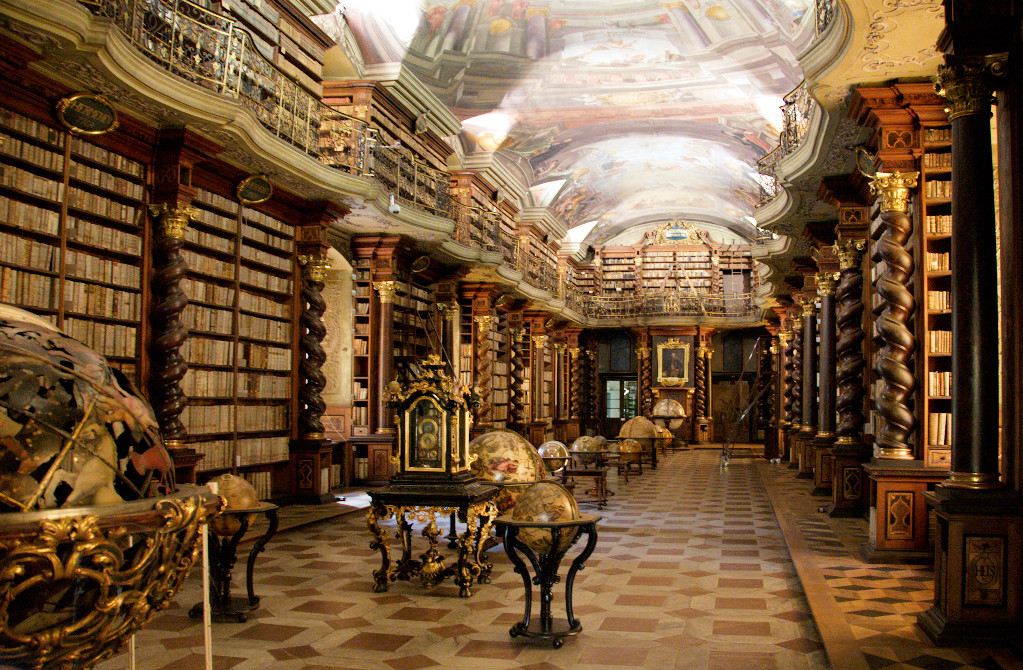 Baroque library hall of the former Jesuit College in the Old Town of Prague. It was built 1722 by Kilian Ignatz Dientzenhofer and it is decorated with frescoes on the topic of Science and art. It was painted in 1727 by Josef Hiebel.